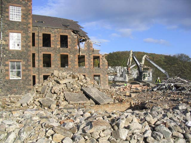 The demolition of the Lochcarron of Scotland Mill in Galashiels Also known as Waverley Mill and formerly Abbotsford Mill, the demolition of the building is part of the major redevelopment works taking place in Galashiels. New retail premises will be built on this site in Huddersfield Street.